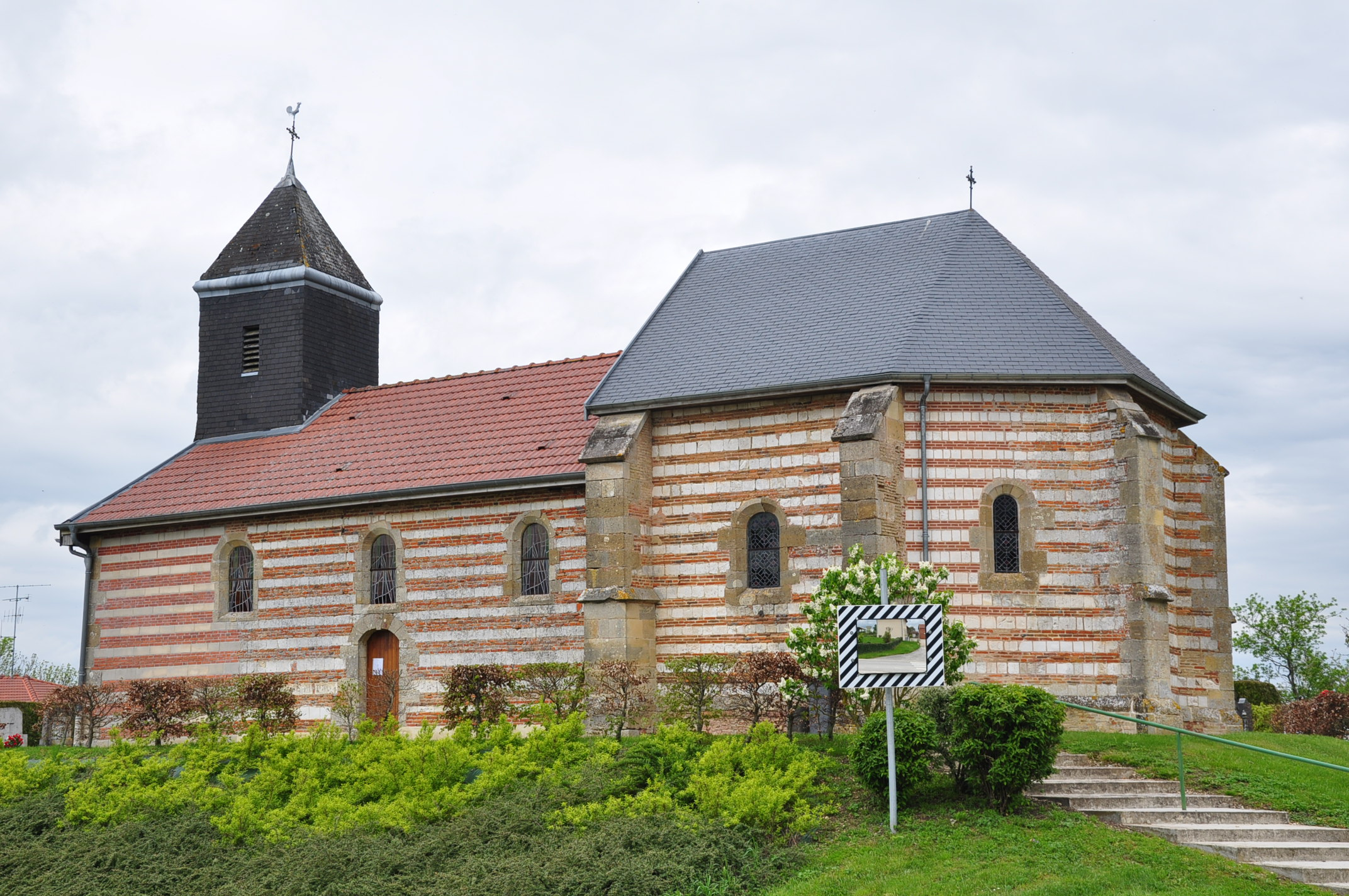 Church of St. Julian in Élise (municipality of Élise-Daucourt, canton Sainte-Ménehould, arrondissement Sainte-Ménehould, Marne department, Champagne-Ardenne region, France).